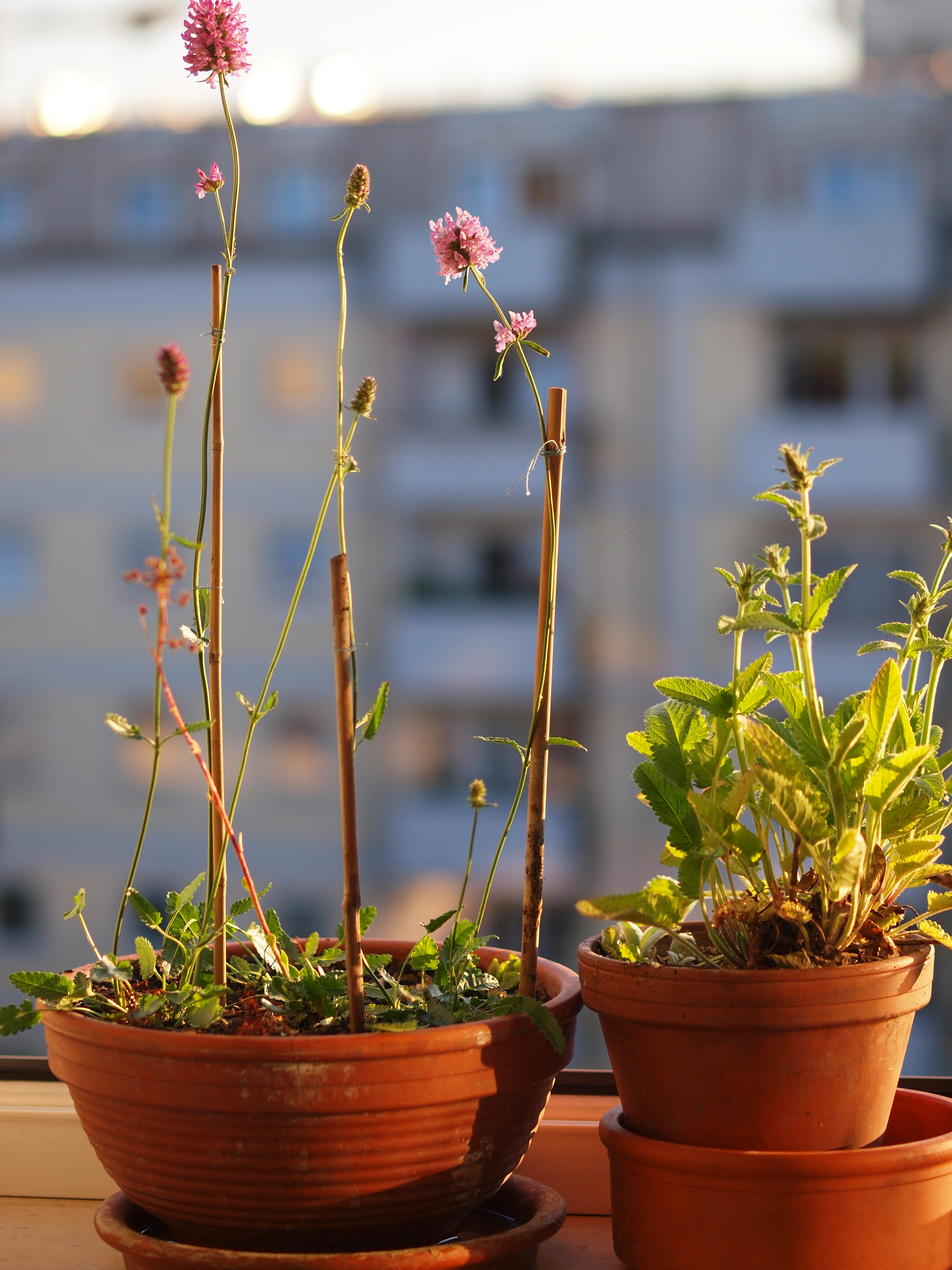 High mountain and lowland Betony left from Mt. Orjen right tyical lowland variety